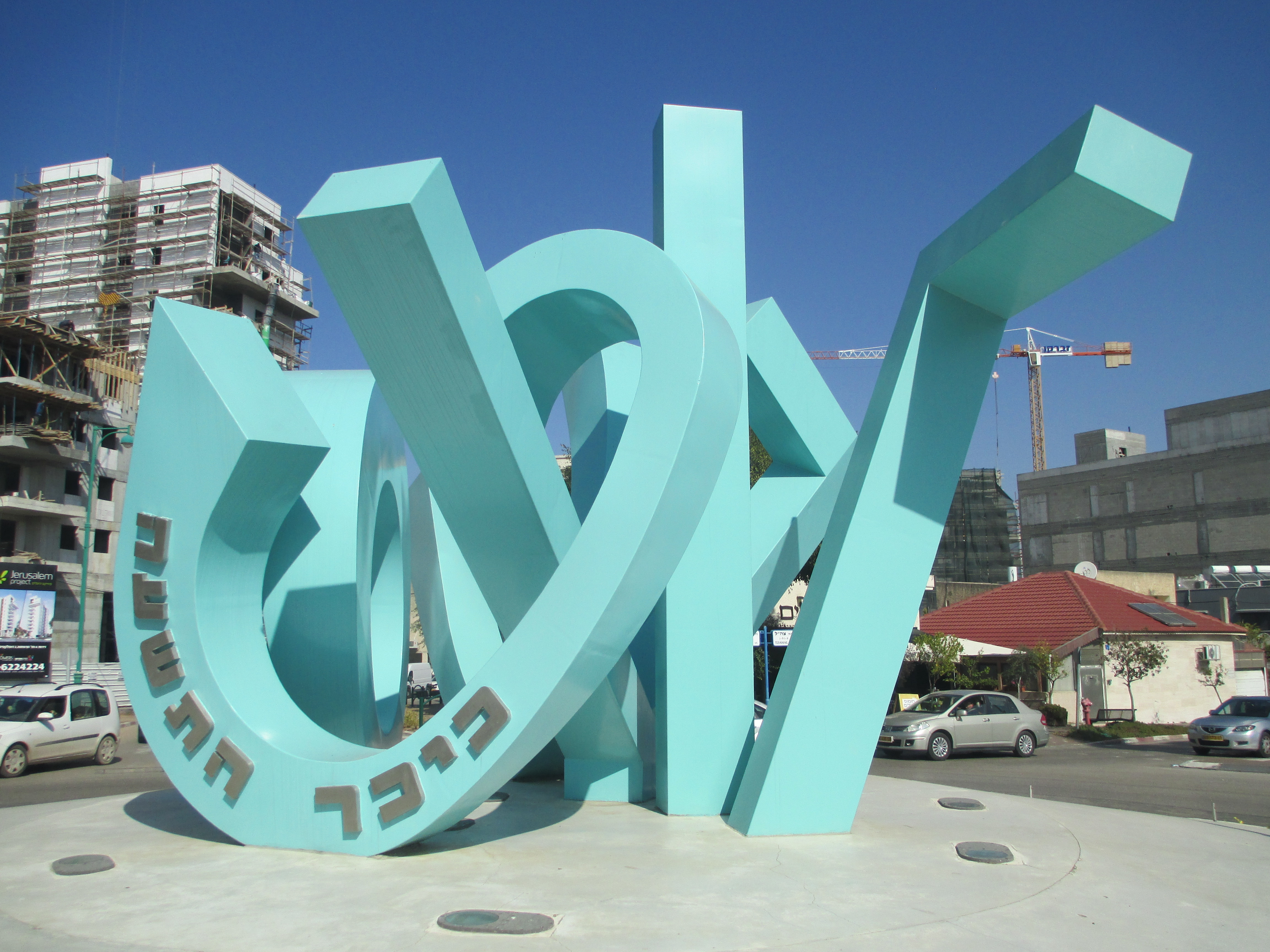 Memorial square to nine victims of terror attack on 2/6/02 in Hadera